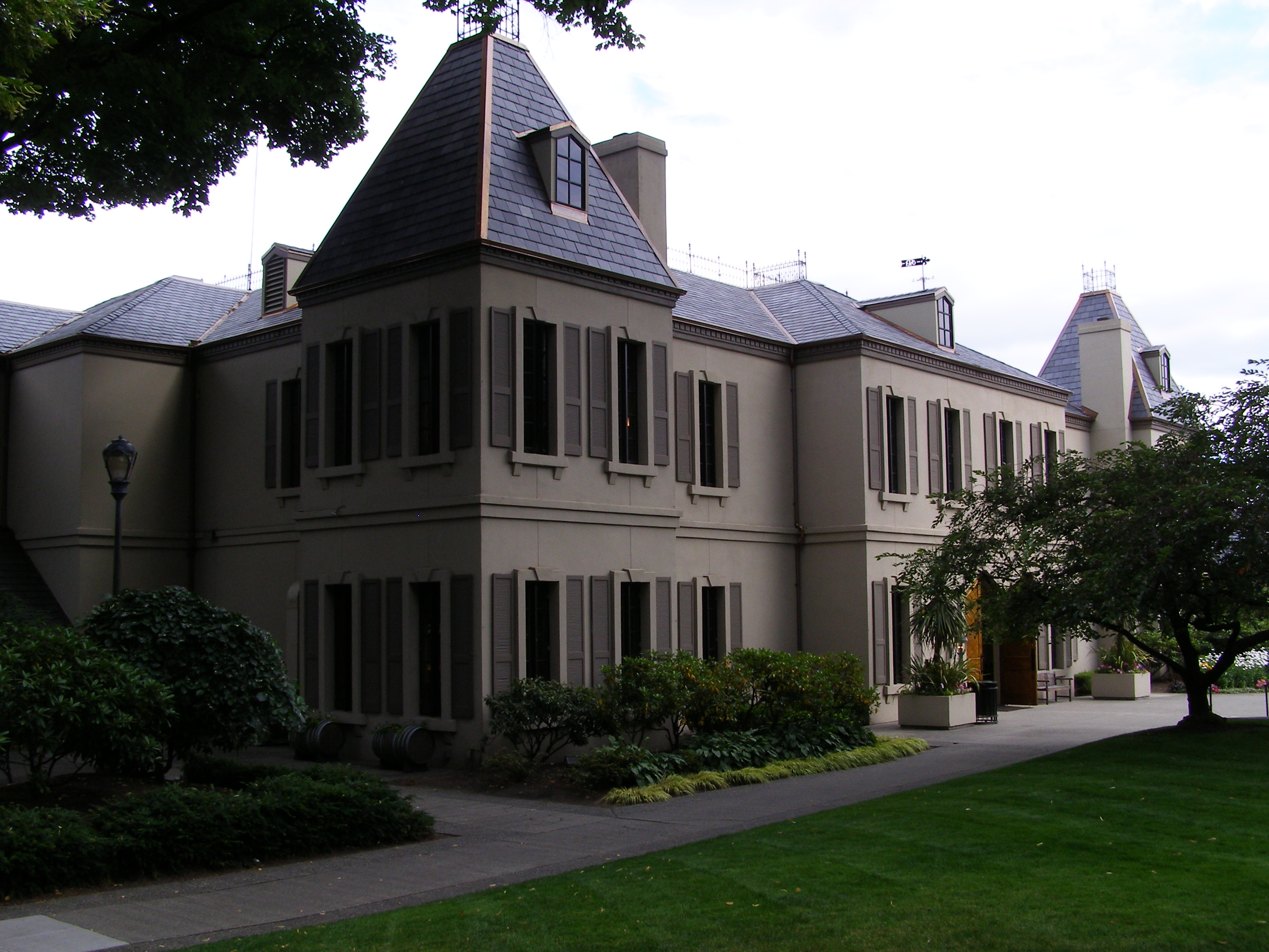 This is the picture that you see in most bottles of Chateau Ste. Michelle wines from Washington state.